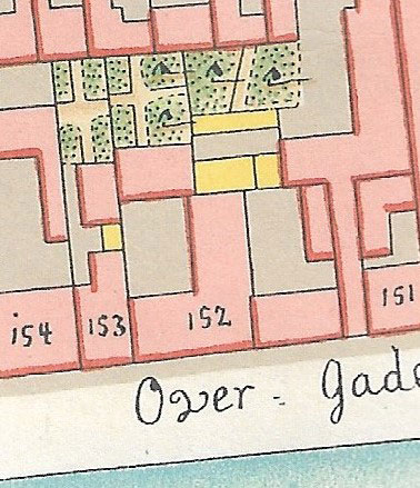 Map detail from Christian Gedde's district map of Christianshavn showing Matr. 150 (Overgaden Neden Vandet 33) in Copenhagen, Denmark